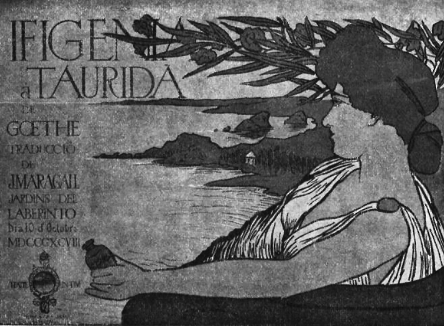 Poster by Miquel Utrillo (1862–1934) made in 1898 for the performance of Goethe’s theater play Iphigenia in Tauris in the Parc del Laberint d’Horta in Barcelona, Catalonia (Spain).